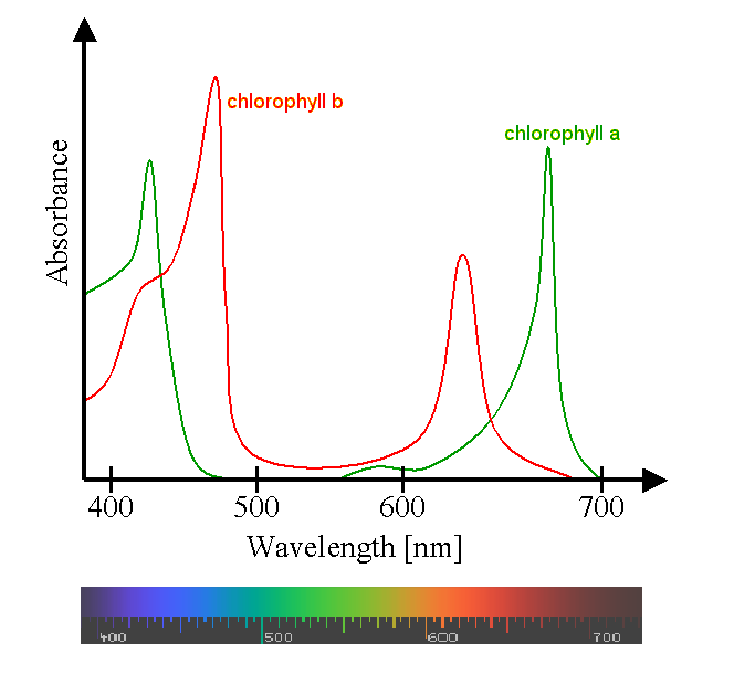 "Chlorophyll ab spectra.png" and "Spectre.svg" edited.